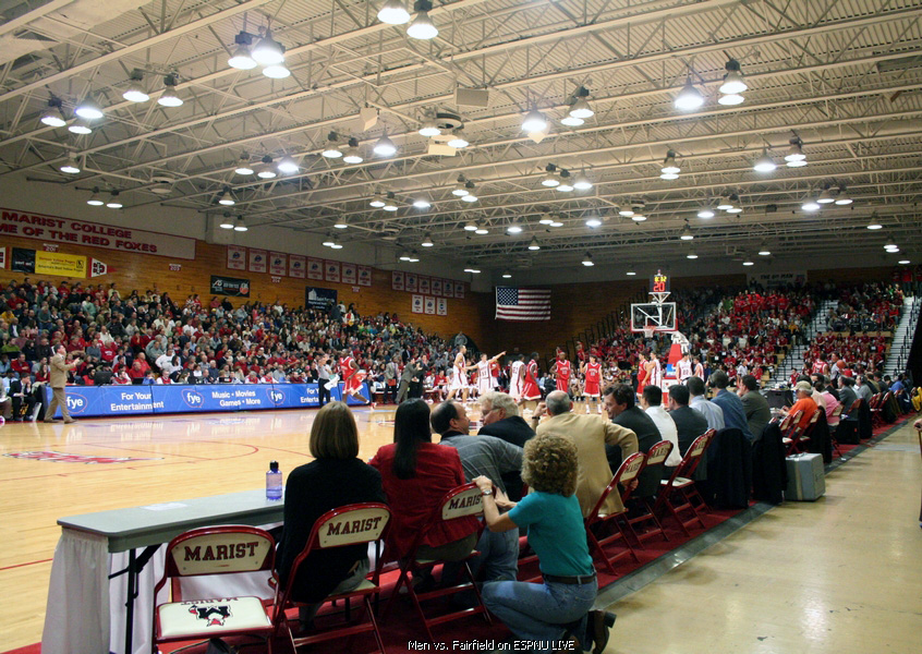 A photo from Marist men's basketball versus Fairfield from 2006, televised on ESPNU.